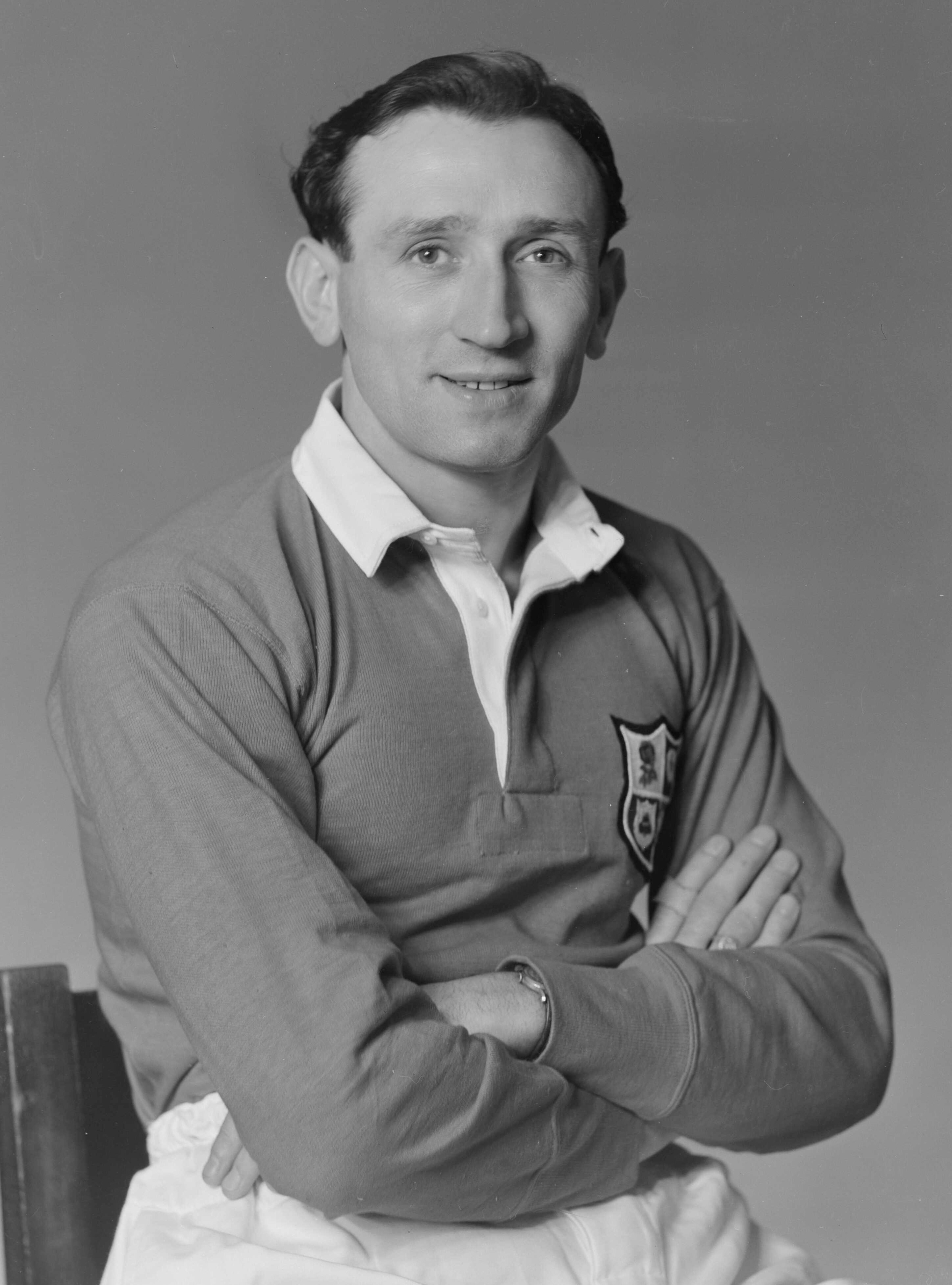 K J Jones, member of the British Lions rugby union team